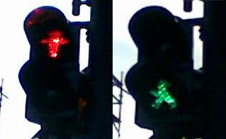 East Berlin traffic lights